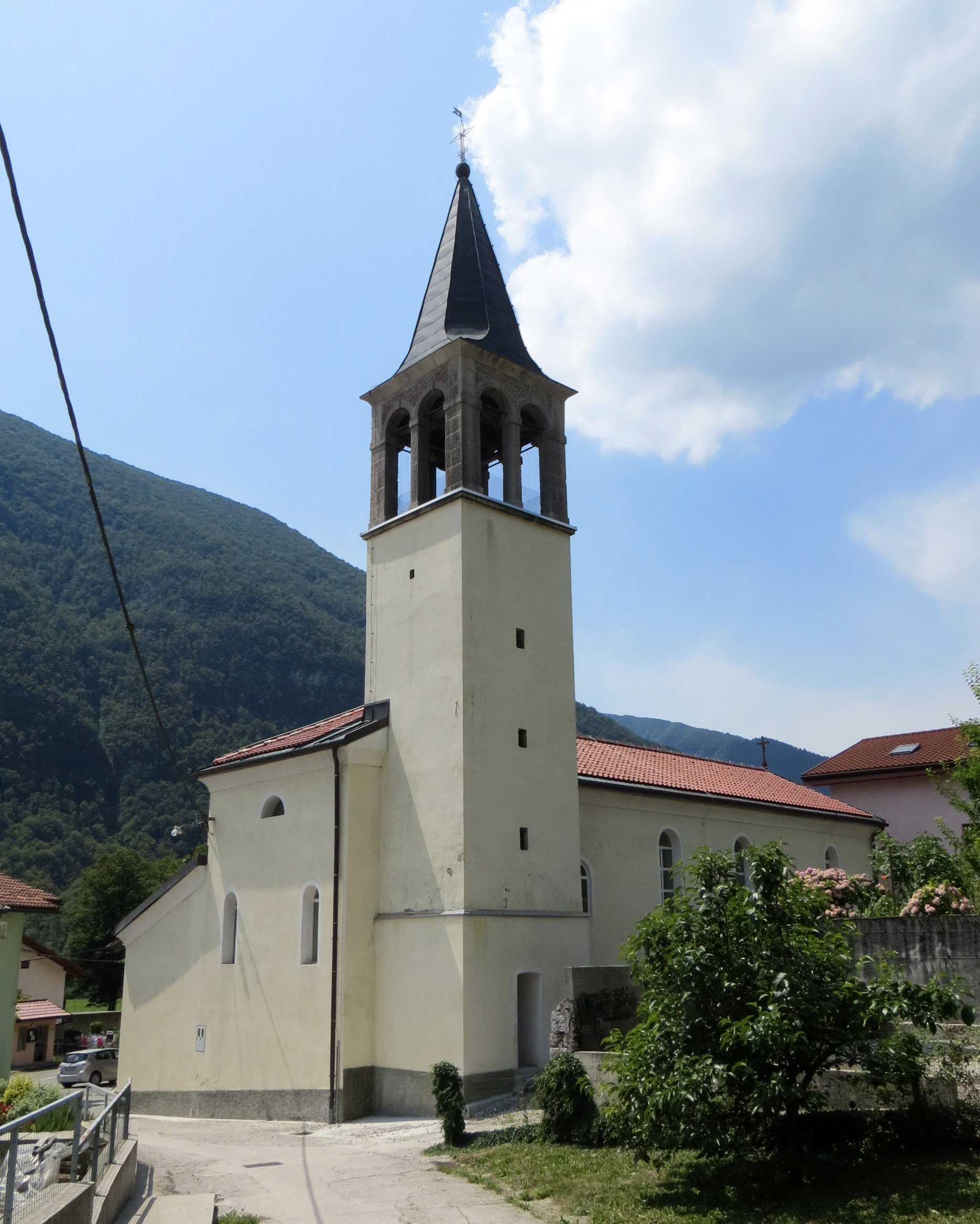 Saint Leonard's Church in Staro Selo, Municipality of Kobarid, Slovenia This media shows a cultural heritage object of Slovenia with the EŠD number: 3800